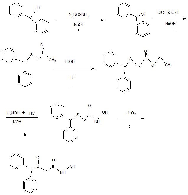 adrafinil